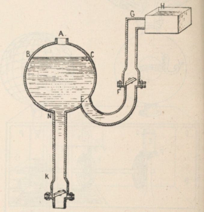 The Belidor pump - Principles